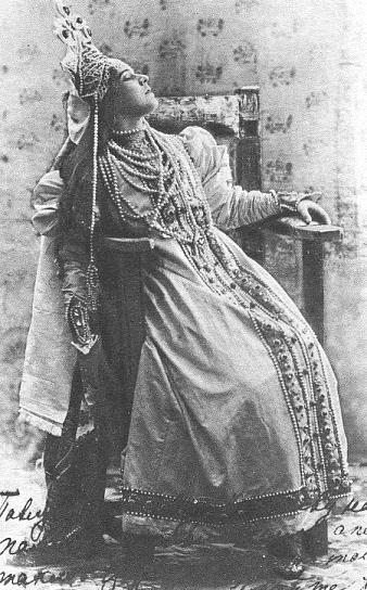 The death of Marfa. Nadezhda Zabela-Vrubel sang the role in the premiere of the opera. (Private Opera Society, Moscow, 1899)